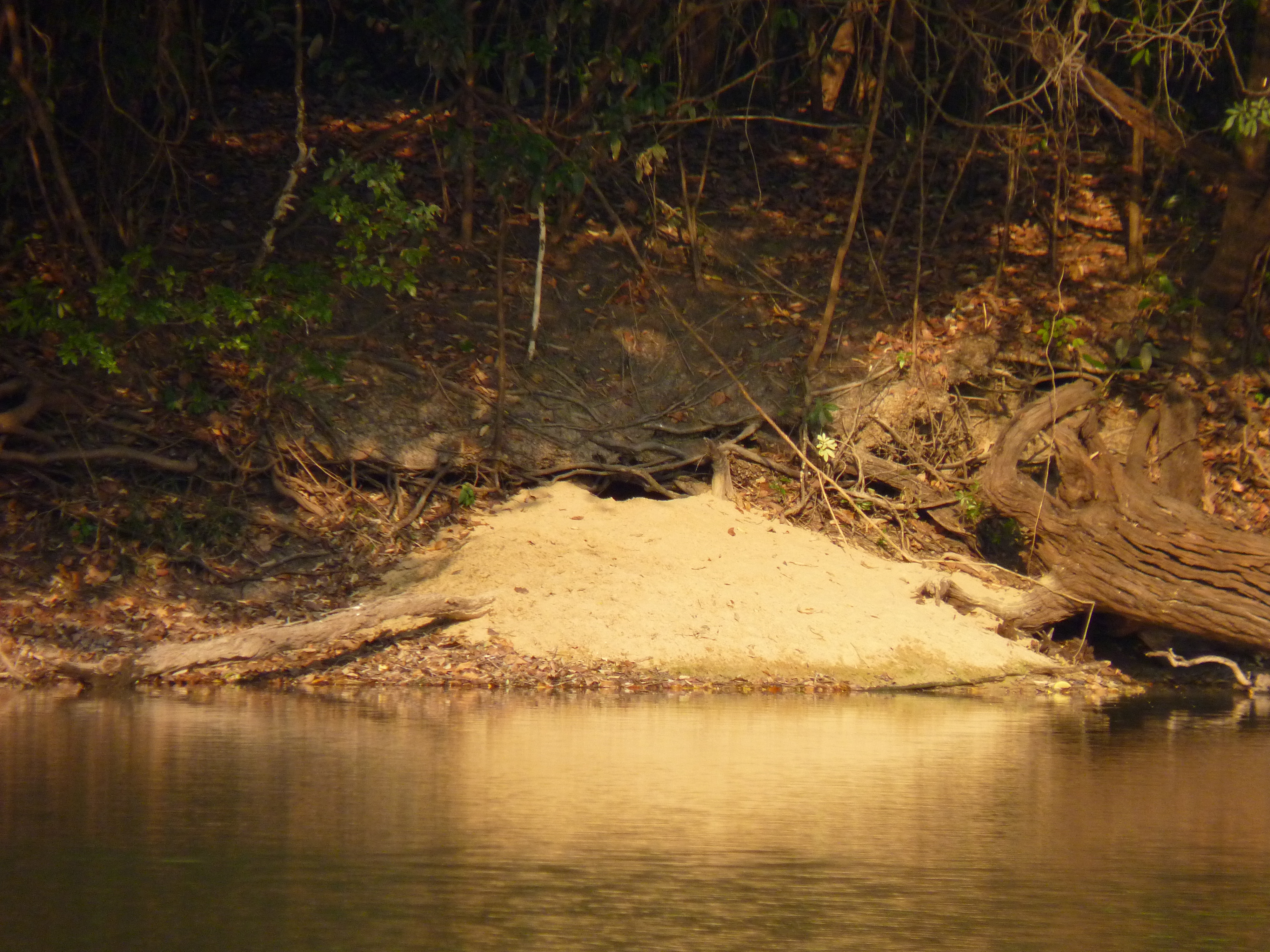 A giant otter (Pteronura brasiliensis) den on a lake shore in Cantão State Park, in the Araguaia wetlands of central Brazil.